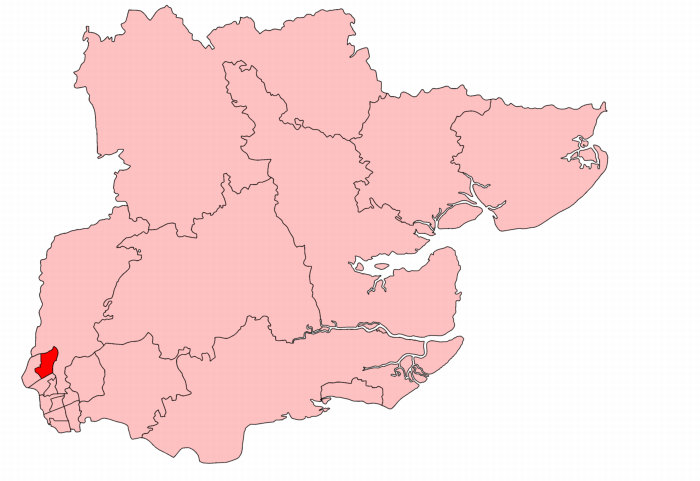 A map of Walthamstow East constituency within Essex, as it existed from 1918 to 1950.